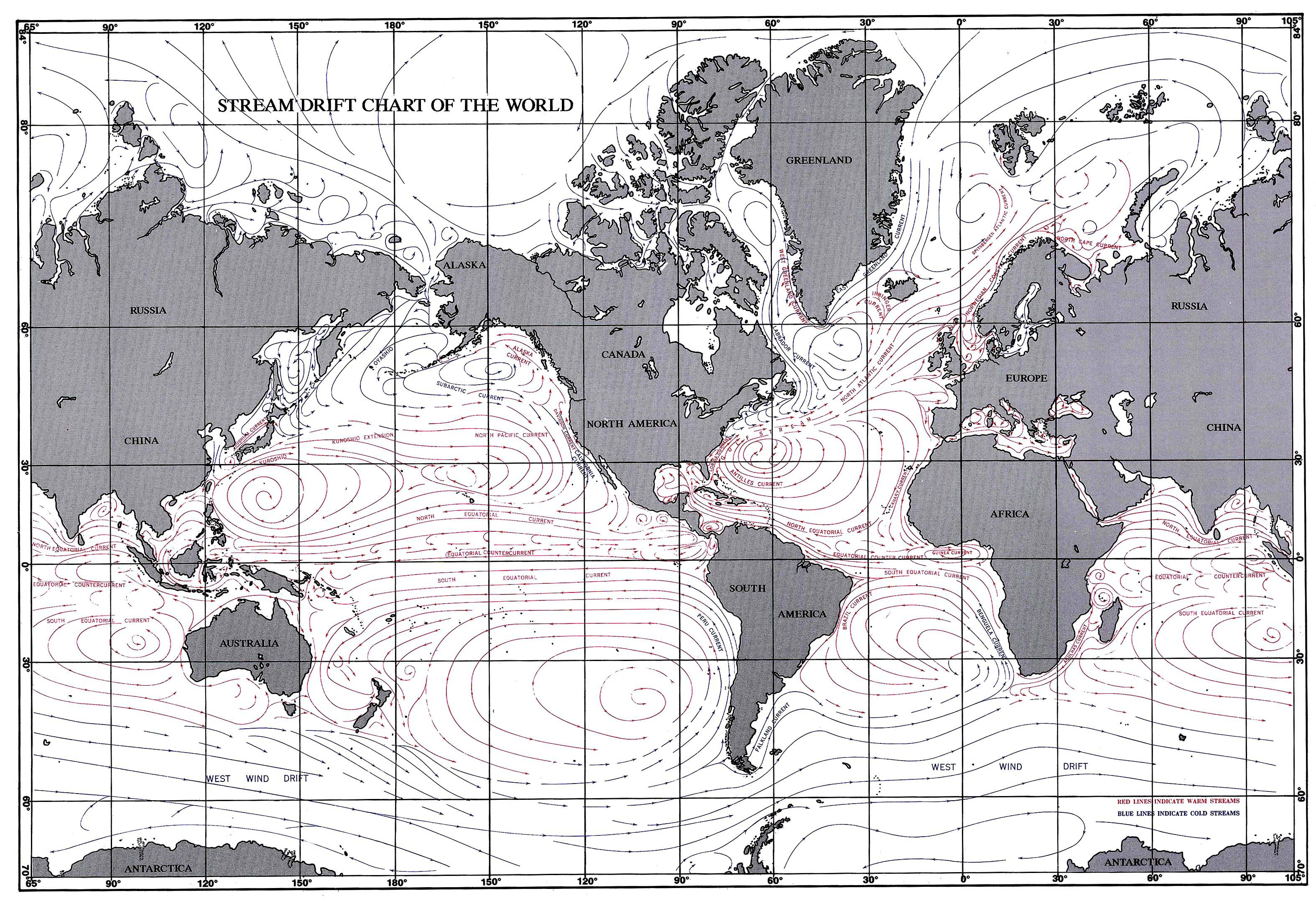 Global ocean current in 2002.